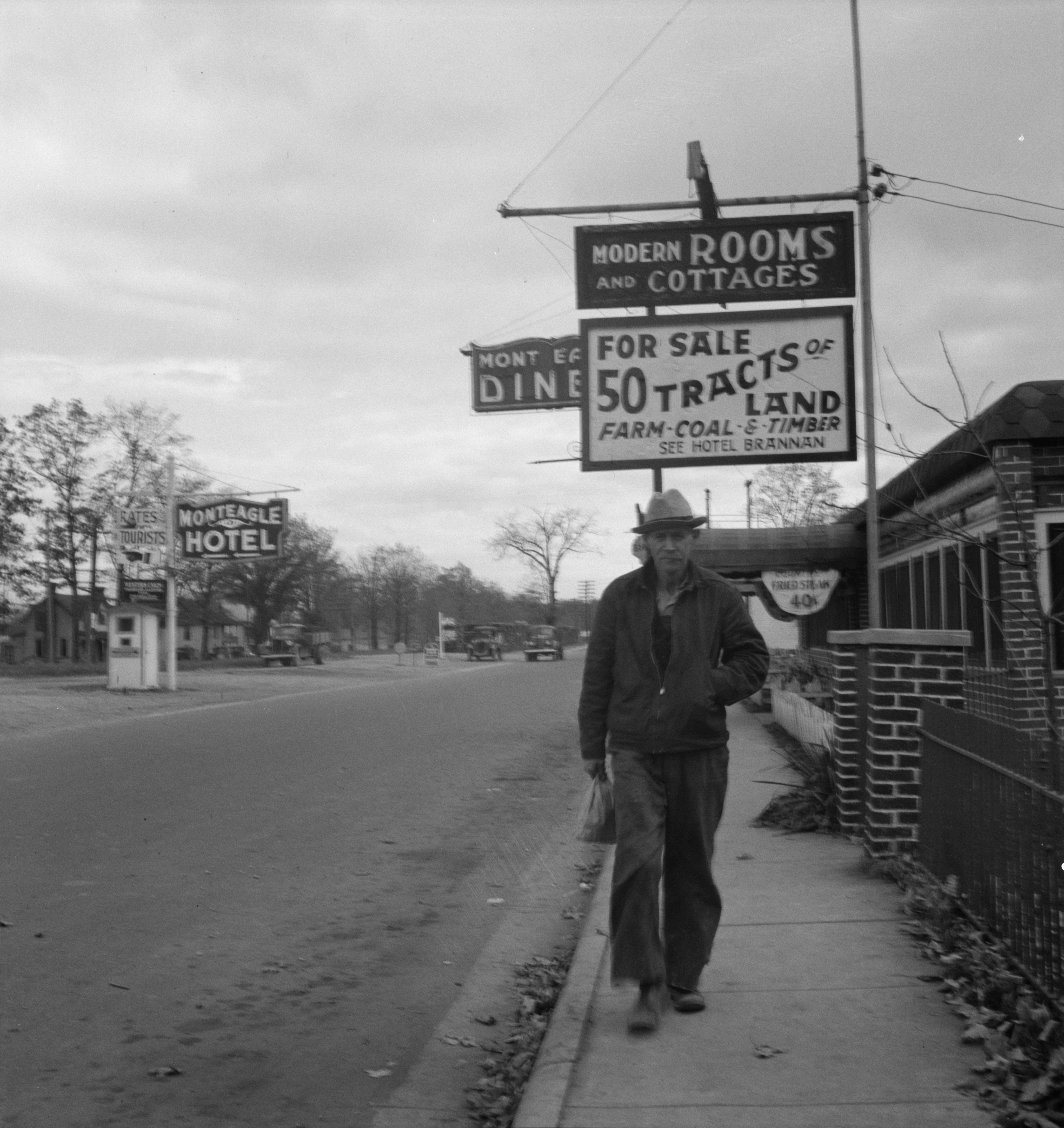 A pedestrian in Monteagle, Tennessee, USA, photographed circa 1941.